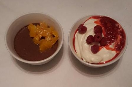 choclate and lemon pudding